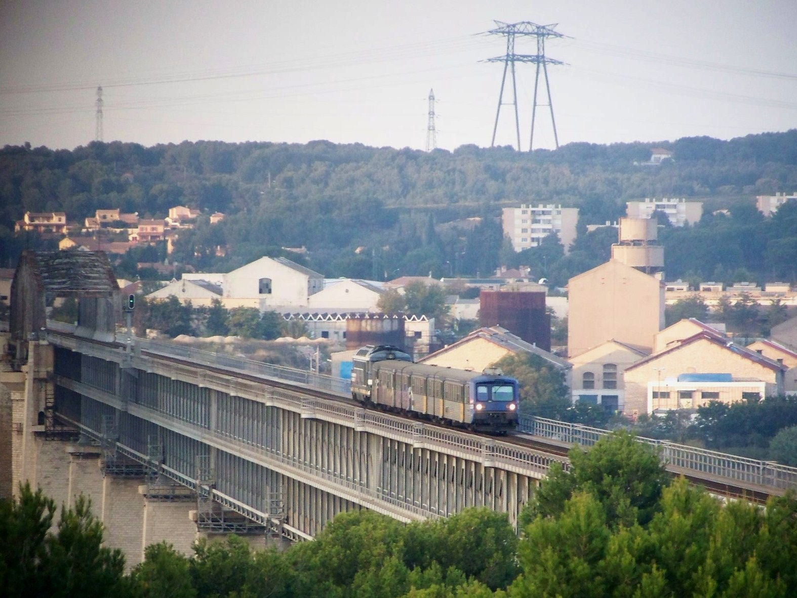 French regional train coming from Miramas and moving to Marseille crosses the viaduc of Caronte bridge just before entering the station of Martigues in Bouches-du-Rhône.